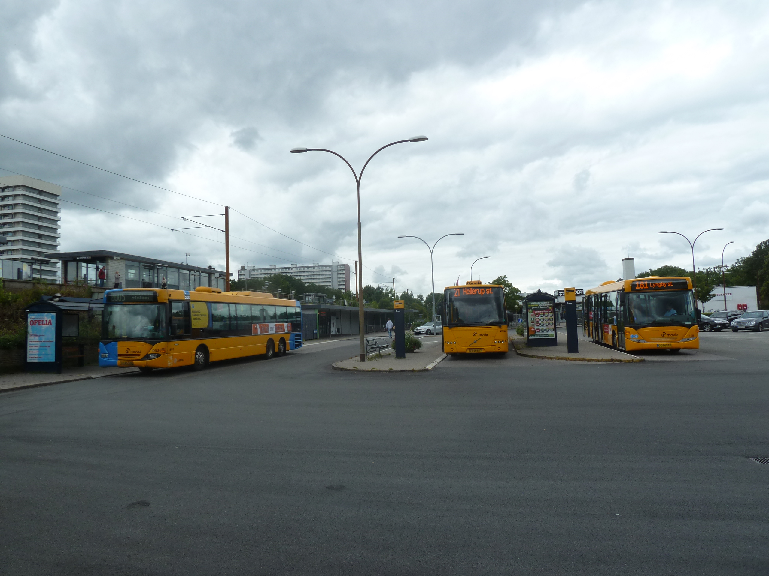 Bus line 200S, 21 and 161 at Rødovre Station in Copenhagen.